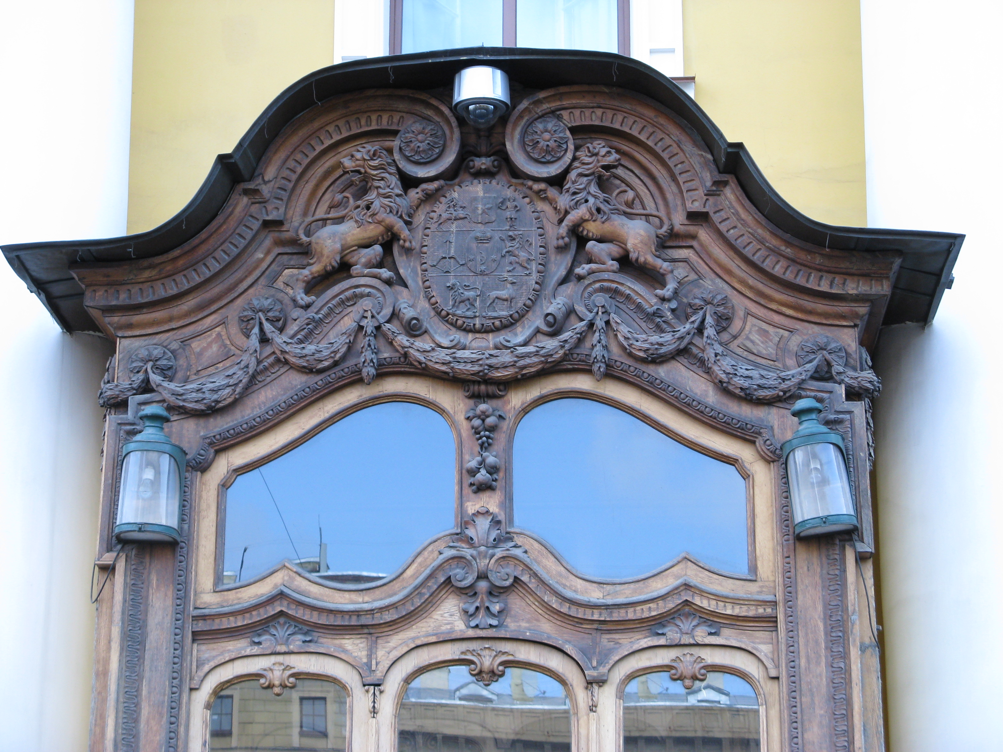 Saint Petersburg (Russia), Moika Palace or Yusupov Palace.